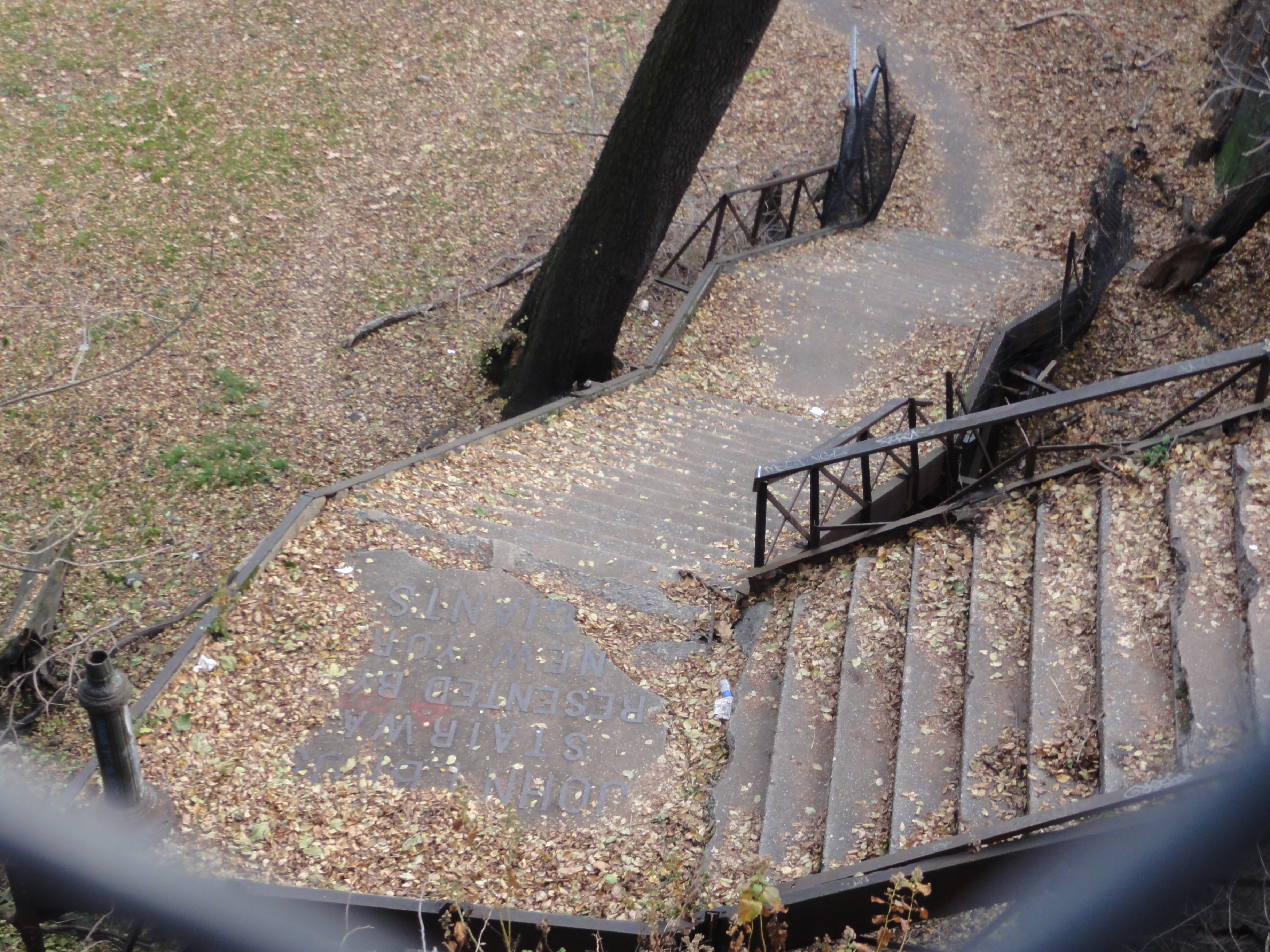 looking down from Edgecombe Avenue at John T. Brush stairway at about 157th street that led to the now-demolished Polo Grounds. It is the only remaining part of the Polo Grounds.